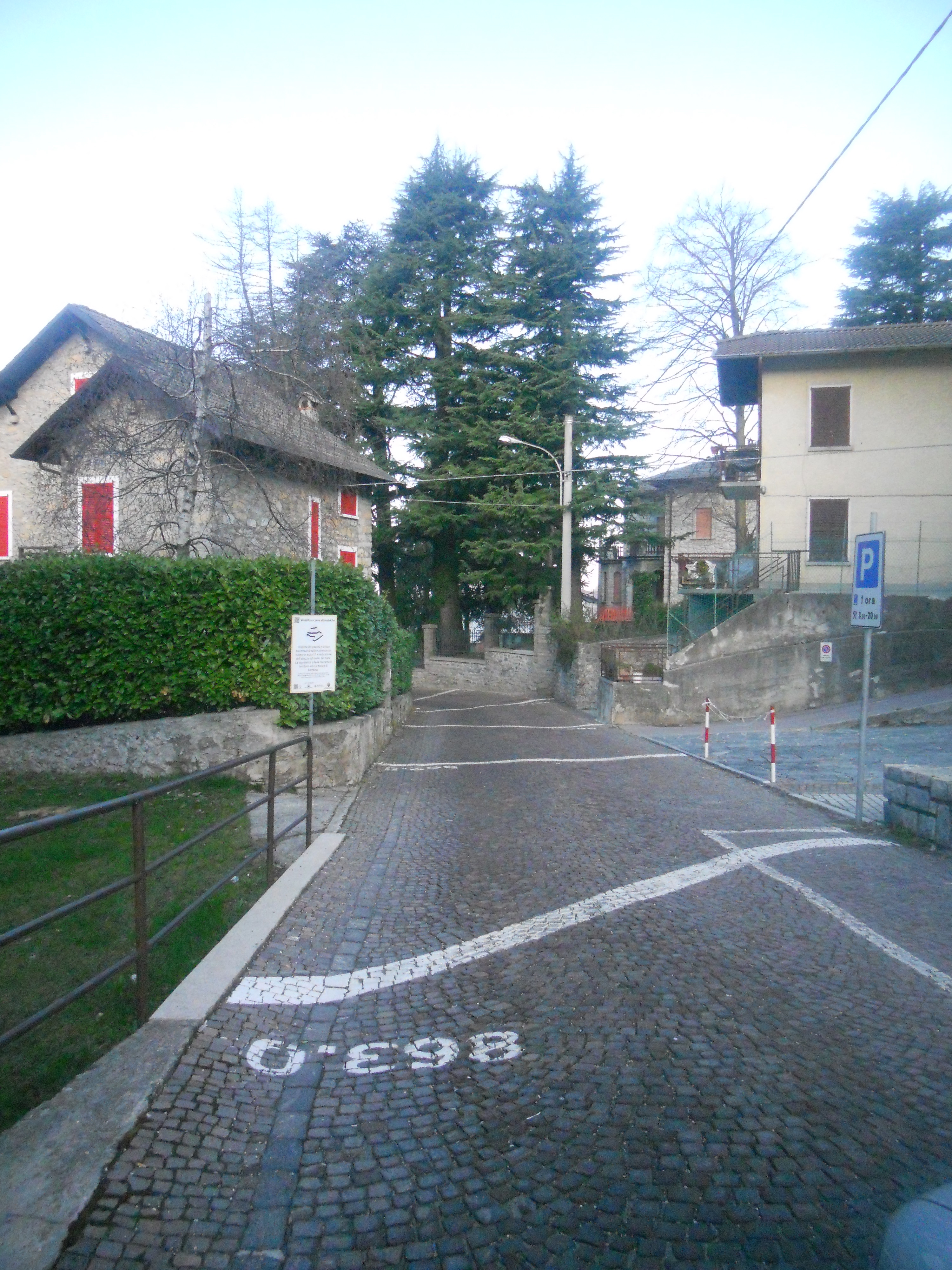 Salottobuono, Curve di livello, Esino Lario 2010. Urban design and site-specific art work in via Montefiori 19 Esino Lario. The signs corresponds to the contour lines in Esino Lario, to express the importance of the mountains but also the paleontological relationship with the sea (Esino Lario is territory strongly characterized by its karst topography and the presence of fossils). The work was commissioned by Associazione Amici del Museo delle Grigne Onlus and produced for Vestire i paesaggi and Ecomuseo delle Grigne.